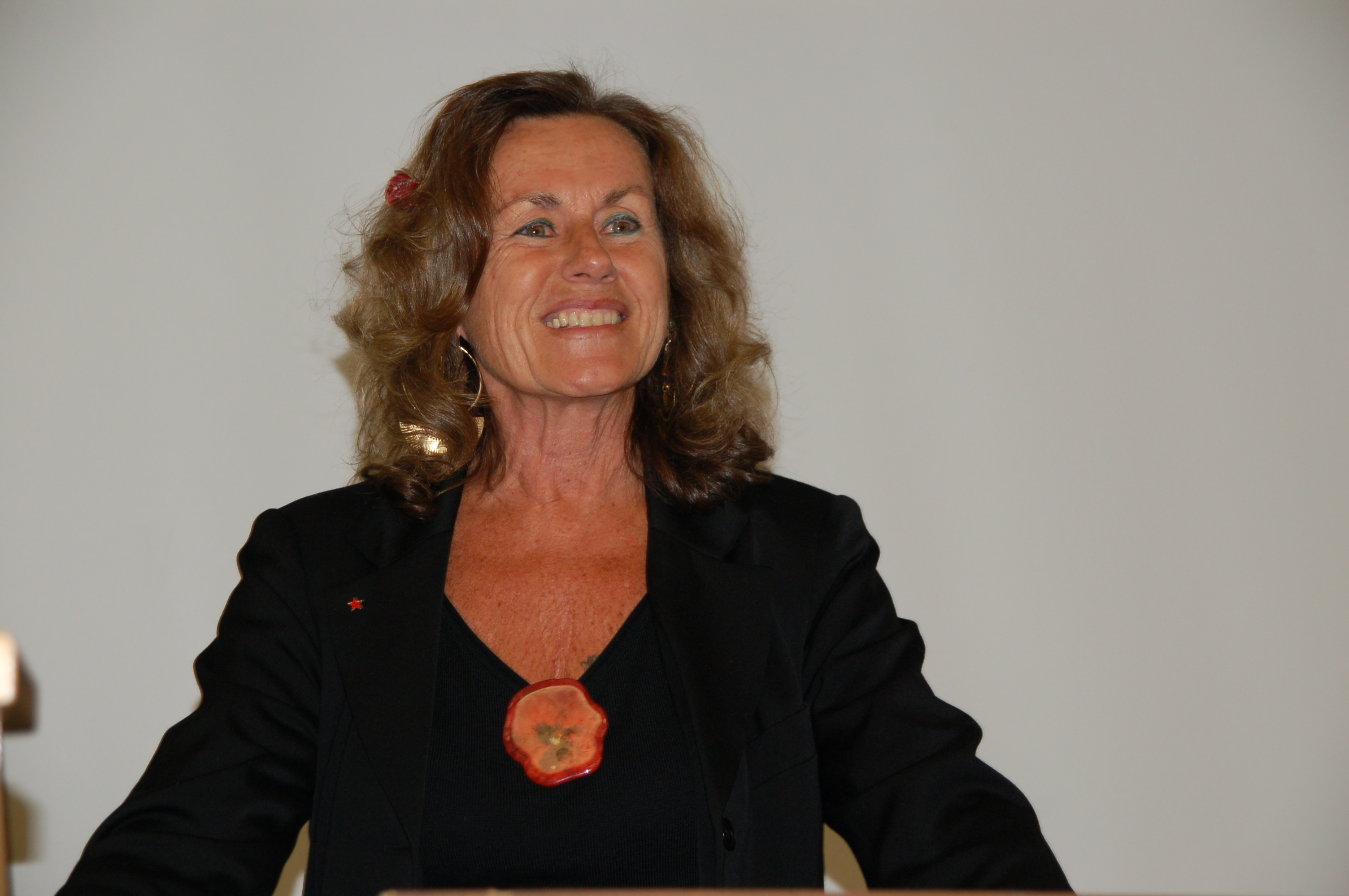 Bernardine Dohrn speaking at a Students for a Democratic Society (SDS) reunion held at Michigan State University.